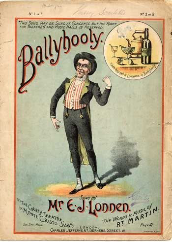 Sheet music cover for "Ballyhooly" sung by E. J. Lonnen in Monte Cristo Jr.